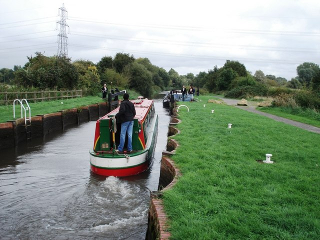 Sheffield Lock, Kennet and Avon Canal, Theale Built in about 1720 and enlarged later in the 18th century. The scalloped brick walls of the lock chamber can be clearly seen in this picture.